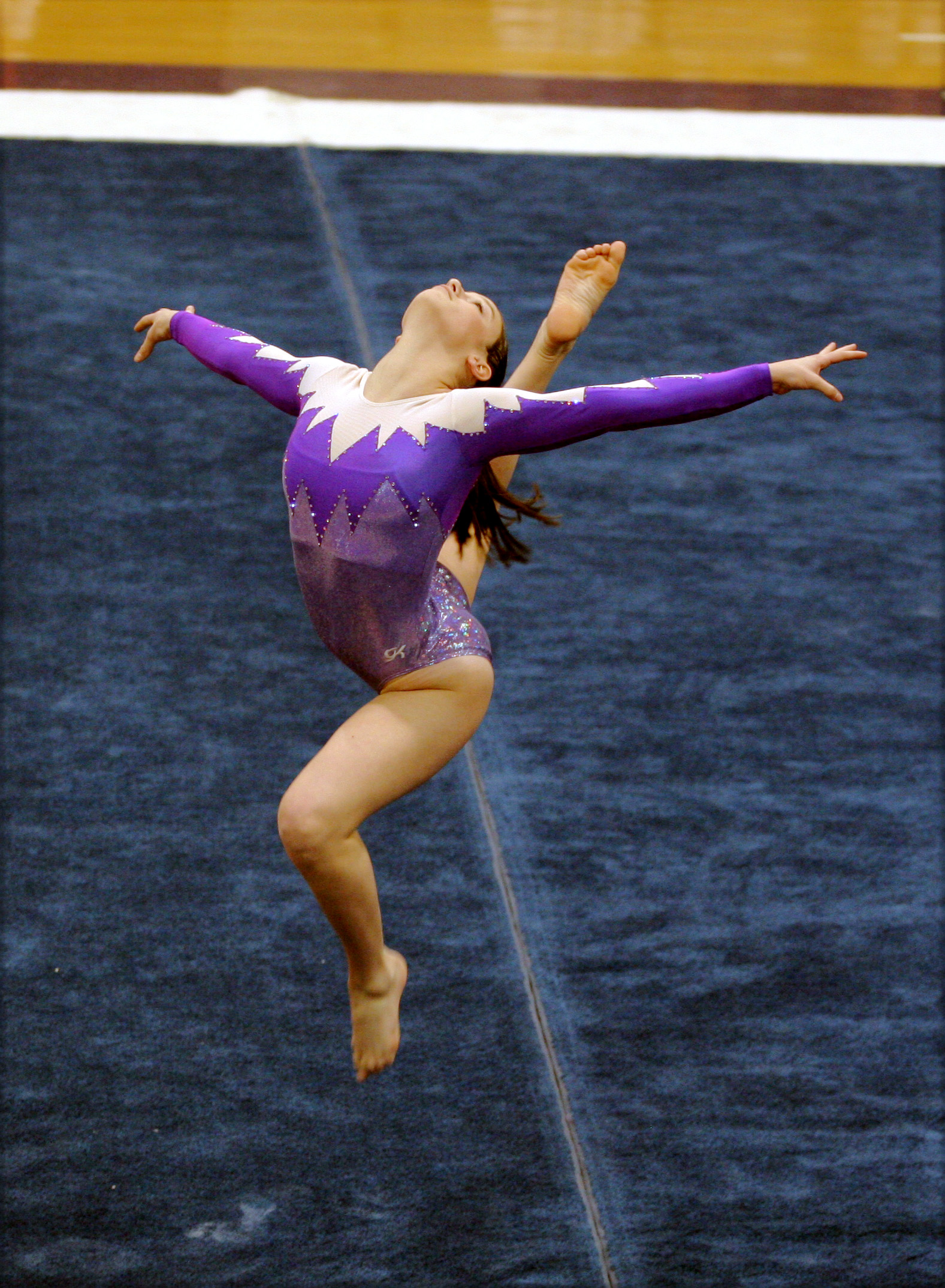 Double ring leap on floor exercise at VHSL state 2006.